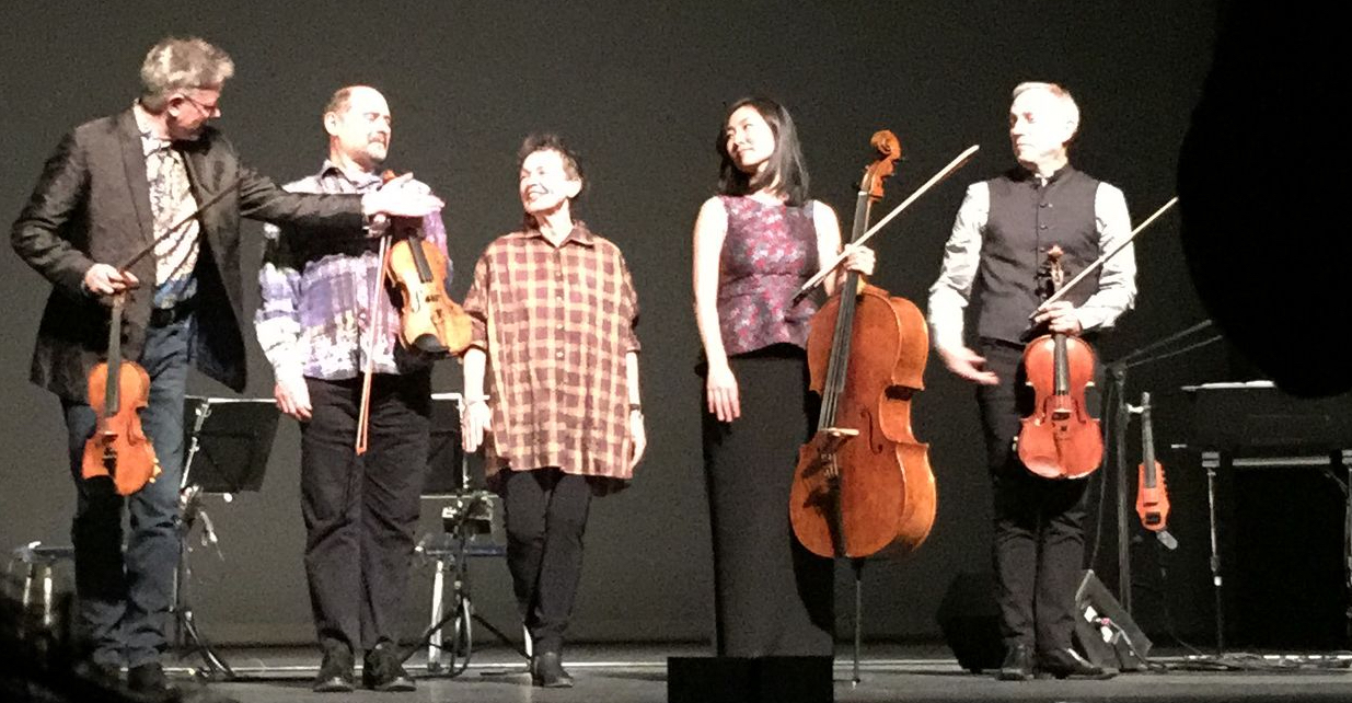 Laurie Anderson amidst the Kronos Quartet in Chicago after performing LANDFALL oratorio at the Harris Theater for the Arts located underneath the downtown/off-lakefront Millennium Park. Original description on Flickr: At the Harris Theater for the Arts, a 1500-soul posh music venue/kiva complete with lots of fancy climbing. The space is hidden underneath Chicago's Millennium Park, downtown, right off the lakefront on Randolph Street.